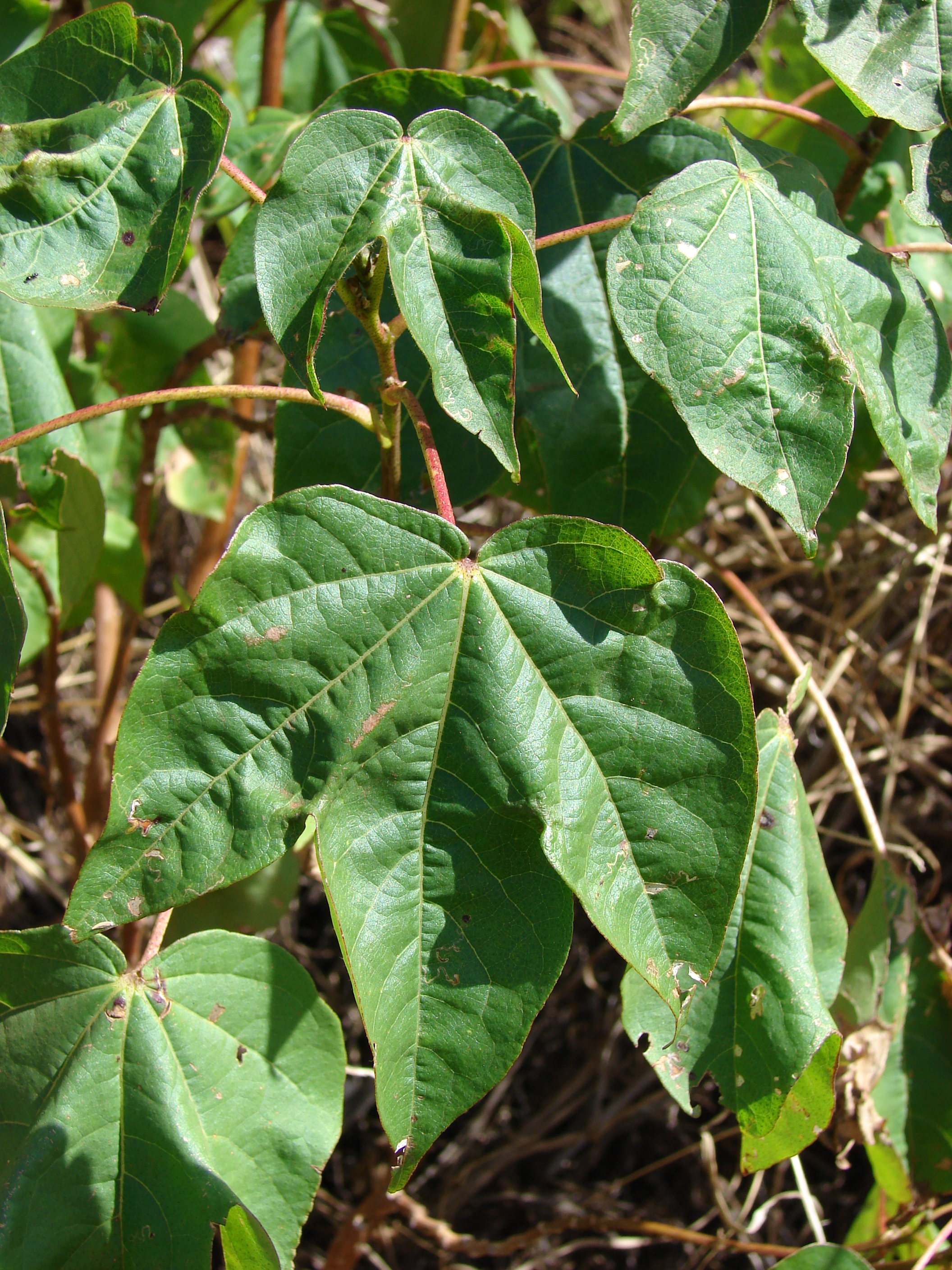 Gossypium barbadense (leaves). Location: Maui, Kaanapali train depot